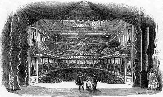 Niblo's Garden, c. 1866